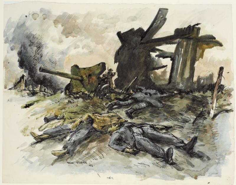 Strongpoint Taken image: Three German soldiers' corpses are strewn across the grass in the foreground. In the background is a dark, black mangled structure next to an artillery gun. Behind this are some British soldiers and, to the left, a smoking ruin.